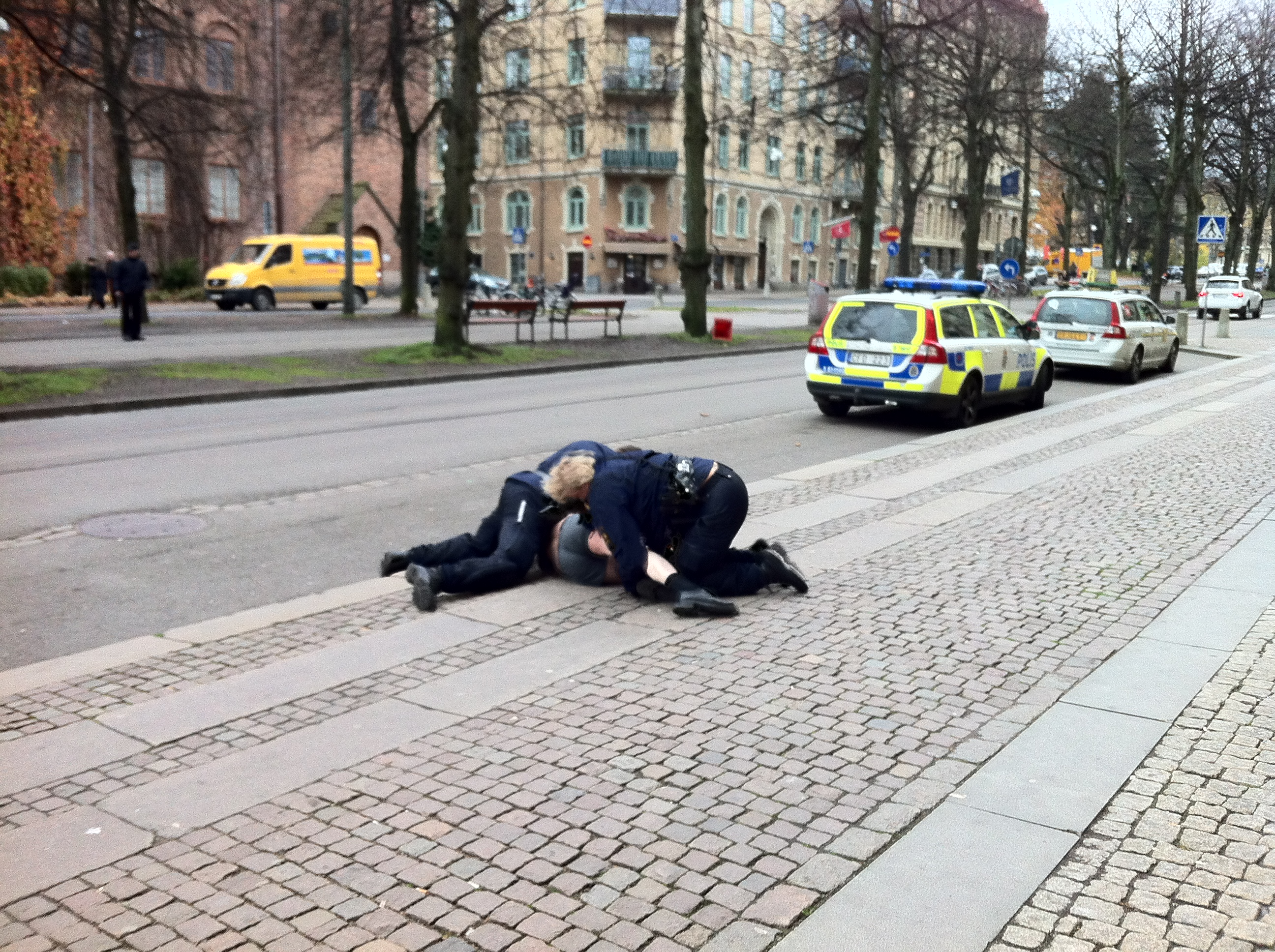 Two police officers arrest a person at Vasagatan in Gothenburg, 2012